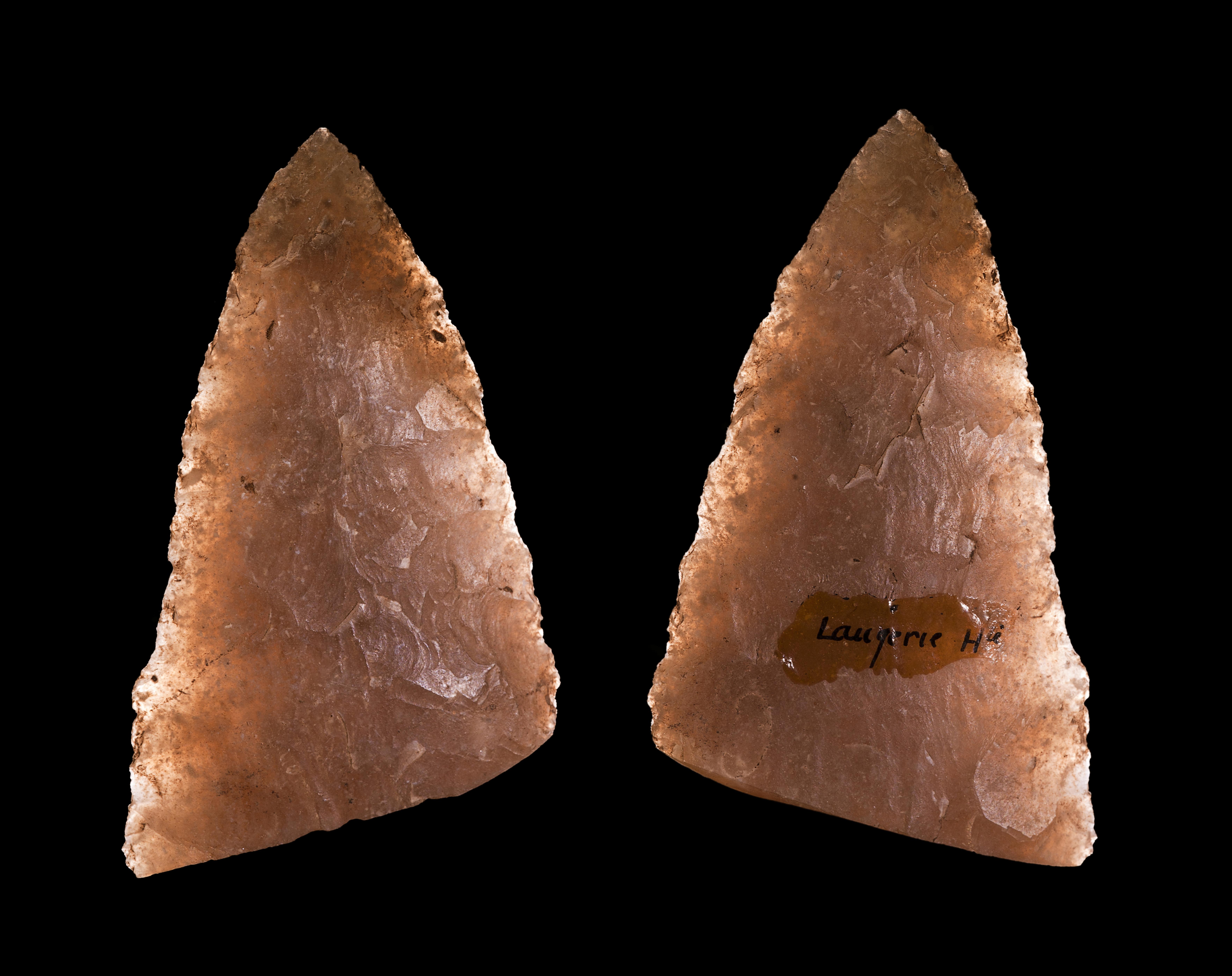 Fragment of a flint laurel-leaf knife Different views of the same specimen.